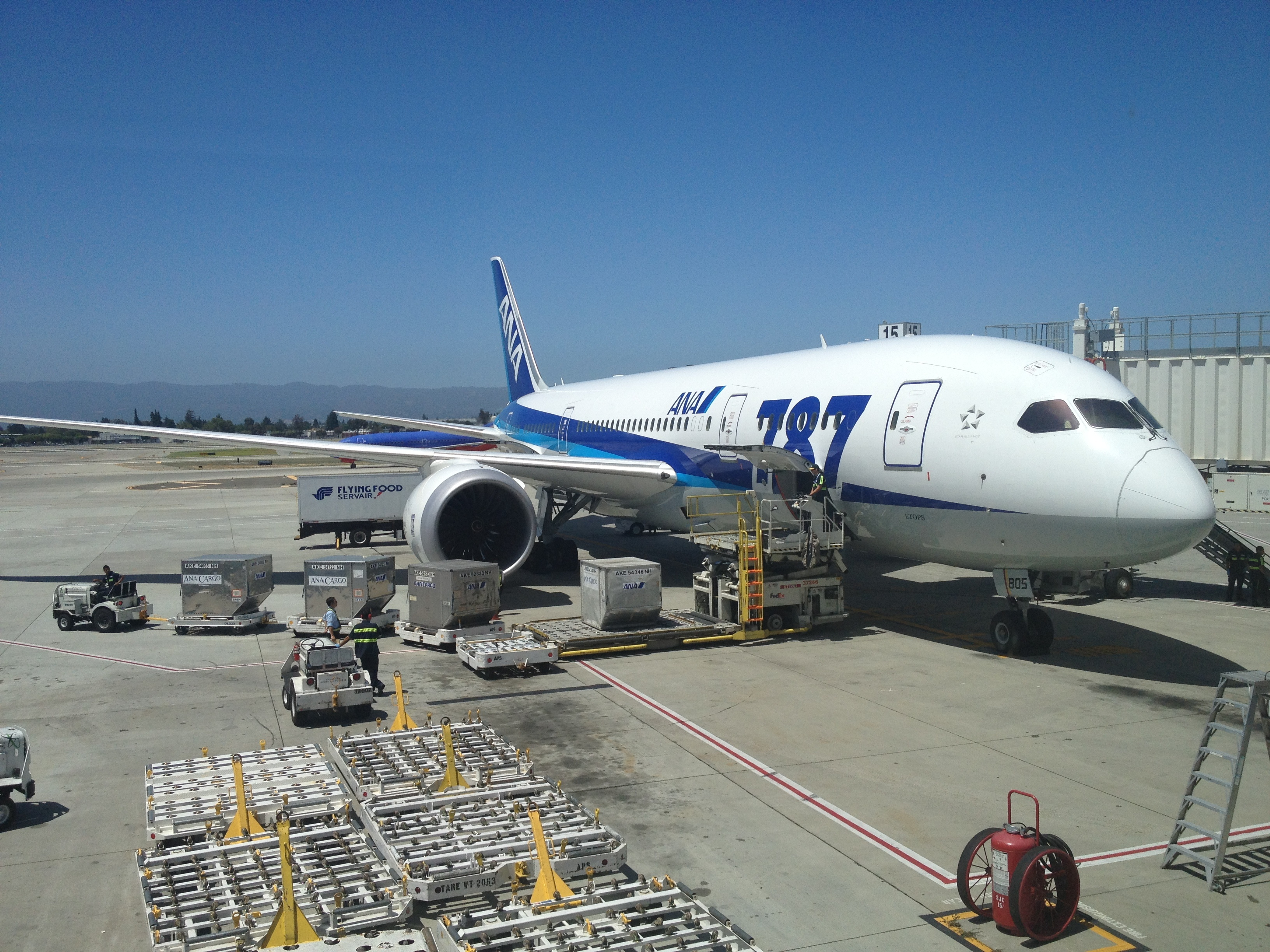 An ANA (All Nippon Airways) Boeing 787 at San Jose Airport (SJC).